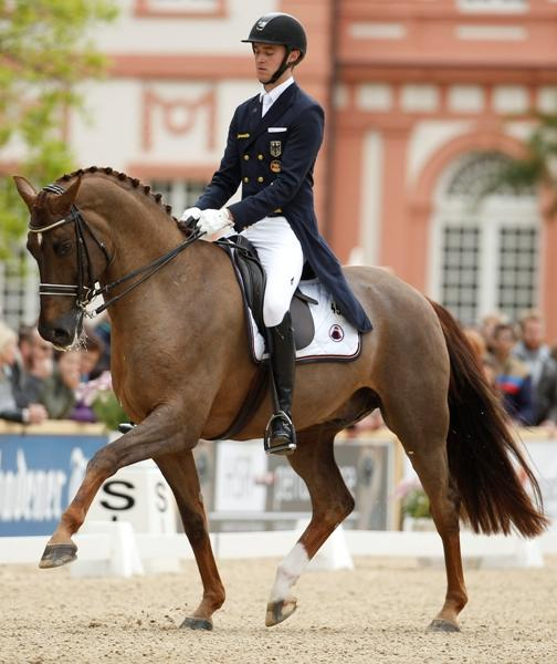 Sönke Rothenberger with Favourit at the Grand Prix de Dressage, CDI 5* PfingstTurnier Wiesbaden 2016